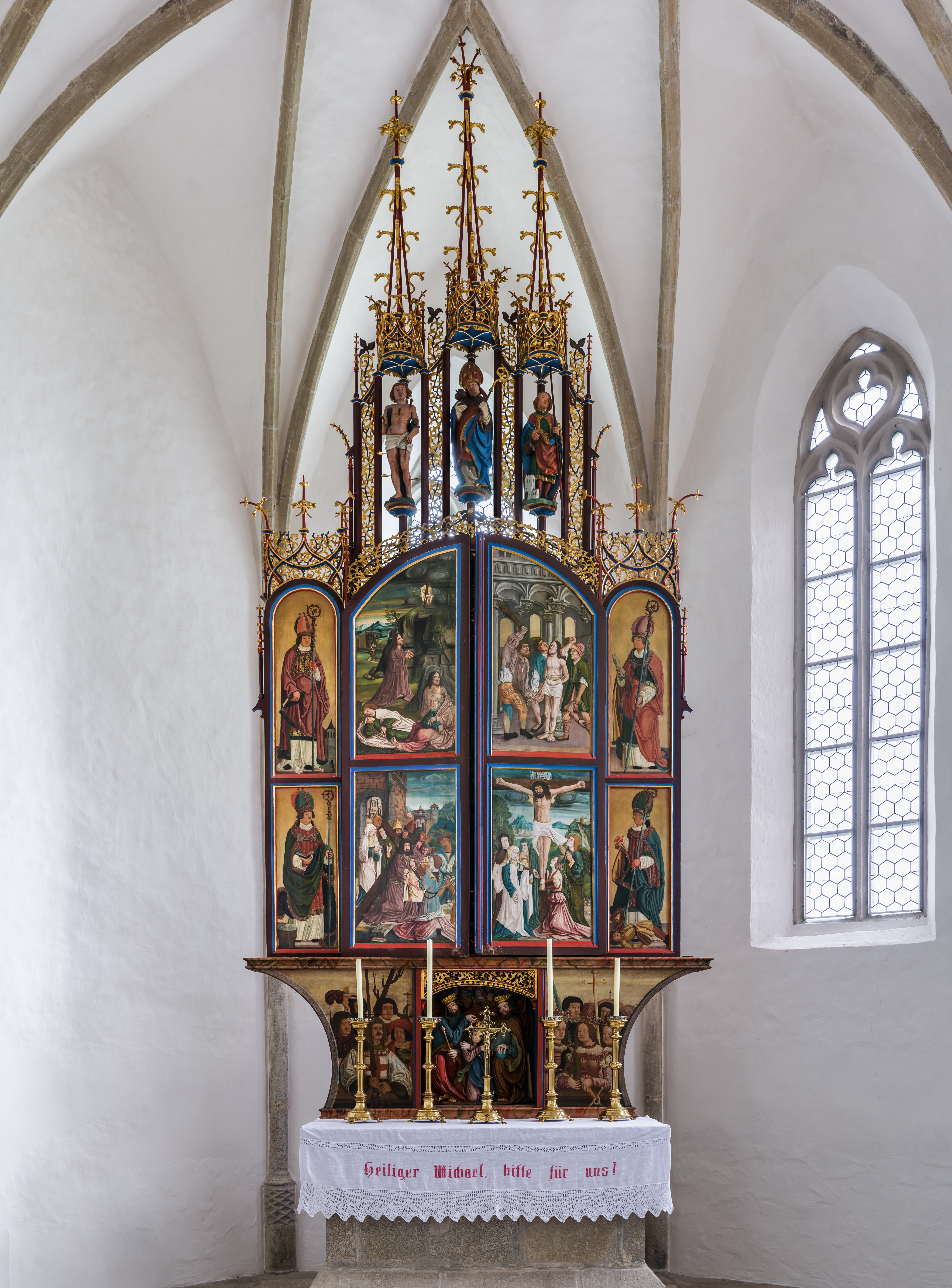 Winged altar at the subsidiary church St. Michael ob Rauchenödt, municipality of Grünbach, Upper Austria. View for weekdays with closed wings. Anonymous master, around 1517.